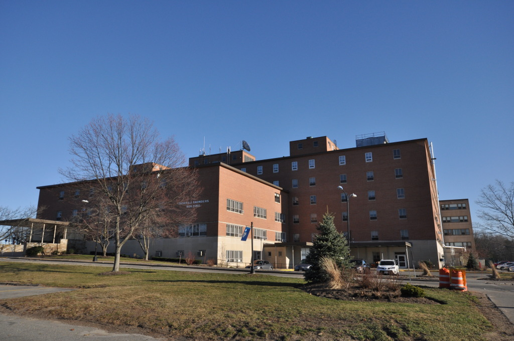 Saunders Building at Tewksbury State Hospital, Tewksbury, Massacchusetts.